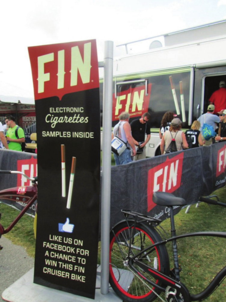 E-cigarette sponsorship of an event, photograph from the January 2015 California Department of Public Health's State Health Officer's Report on E-Cigarettes.